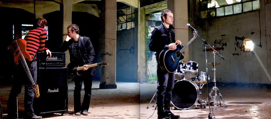 The Electro Rock band